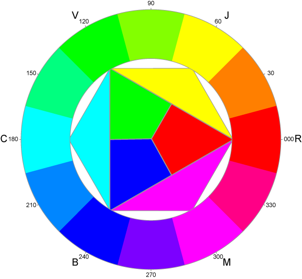 New colors for 'Farbkreis Itten 1961.png'.